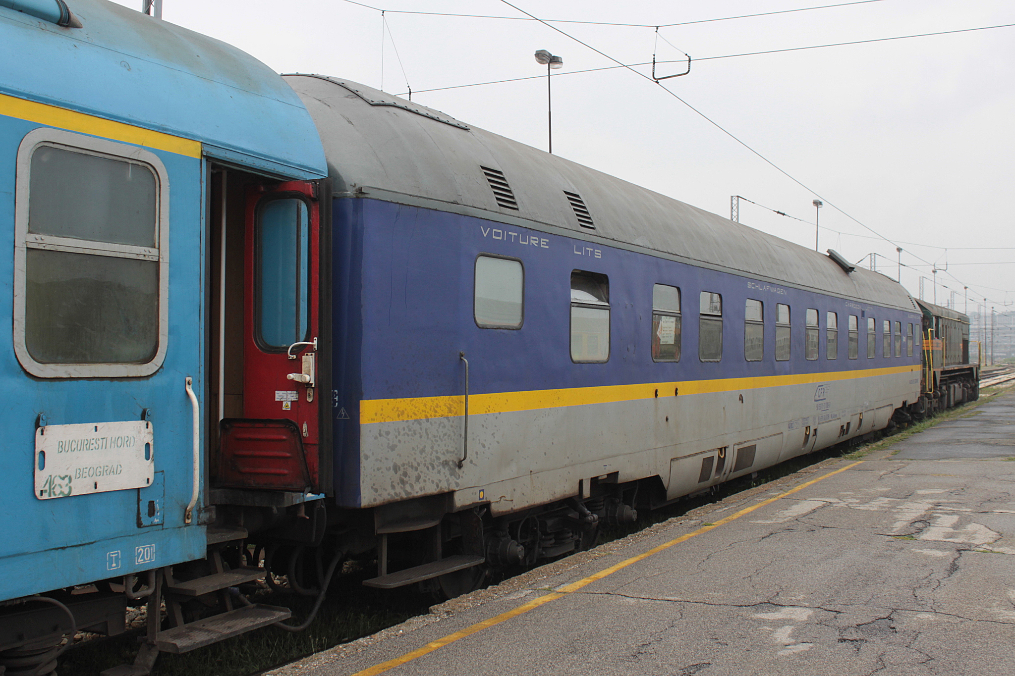 CFR WLABmee 50 53 71-31 009-3 at Beograd train station.